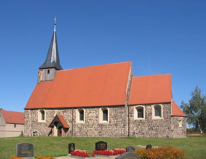 Fieldstone church in Lobbese, built probably in the end of the 12th / beginning of the 13th century. The village Lobbese is a part of the town Treuenbrietzen in the district Potsdam-Mittelmark of the German state Brandenburg in the region and hill chain Fläming.